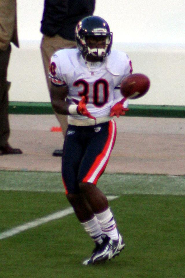 Moore during warmups